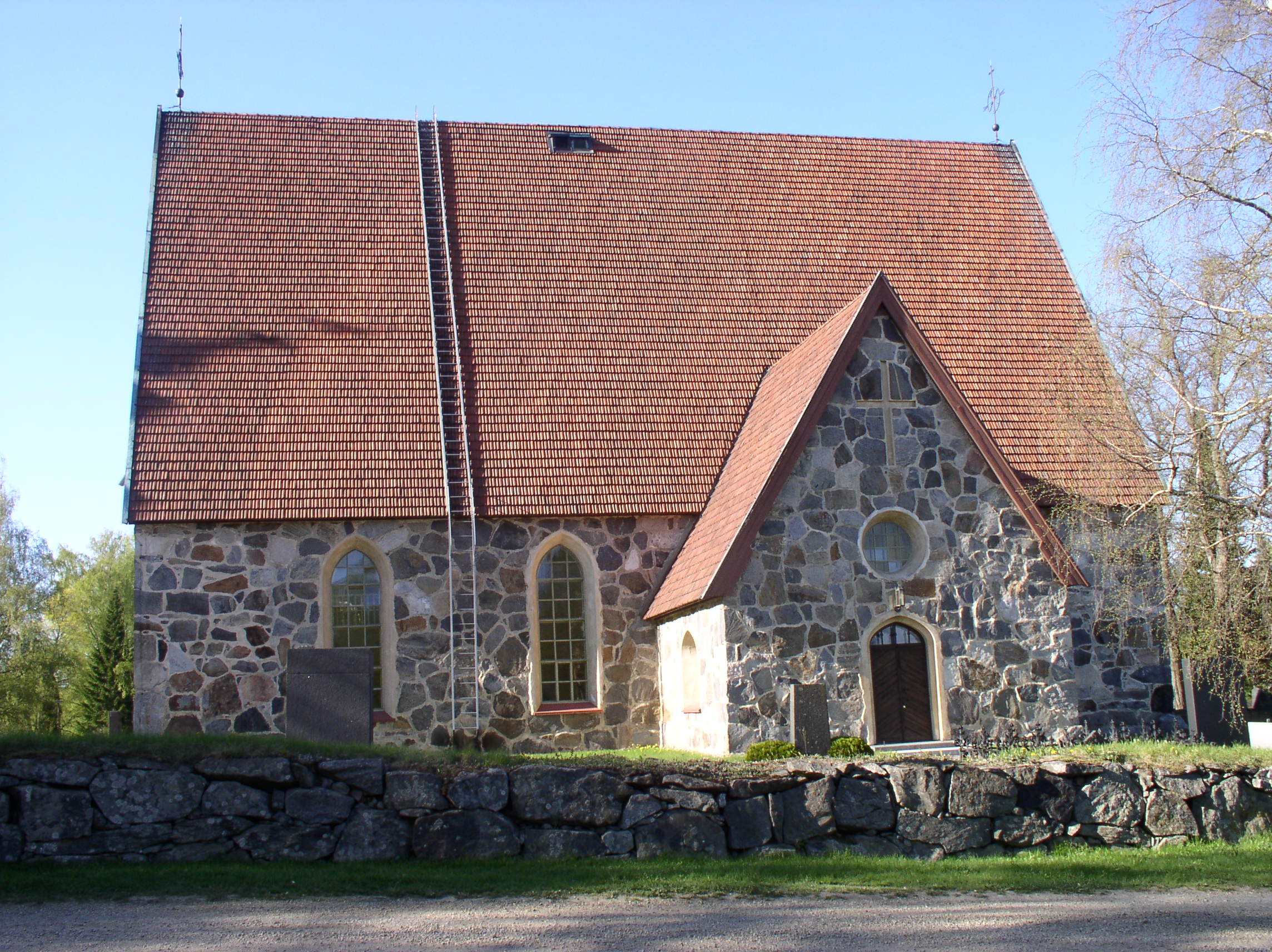 Sääksmäki church in Valkeakoski, Finland.